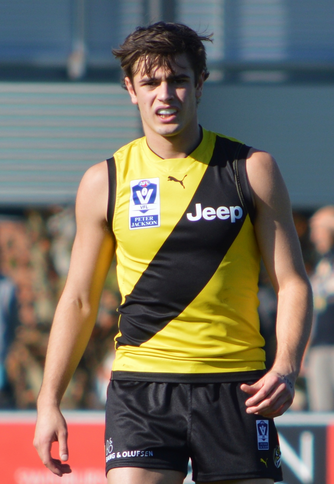 Patrick Naish during the round 8, 2018 VFL match between Richmond and Coburg at Punt Road Oval.